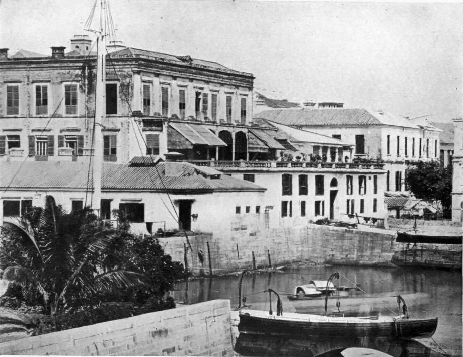 Sea front of Dent & Co's premises before a Praya was built. [1]